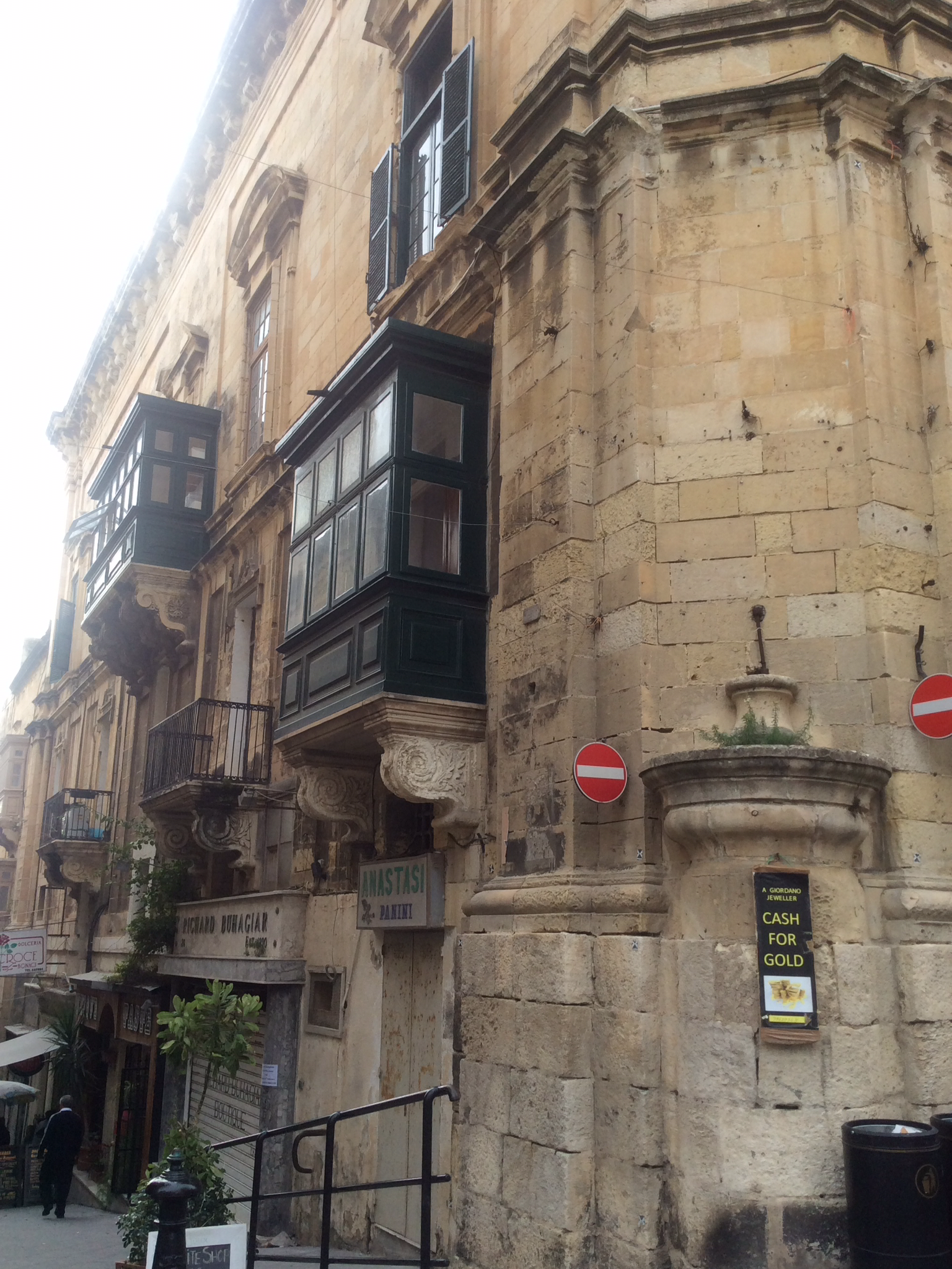 Side façade of the Castellania in Valletta, Malta